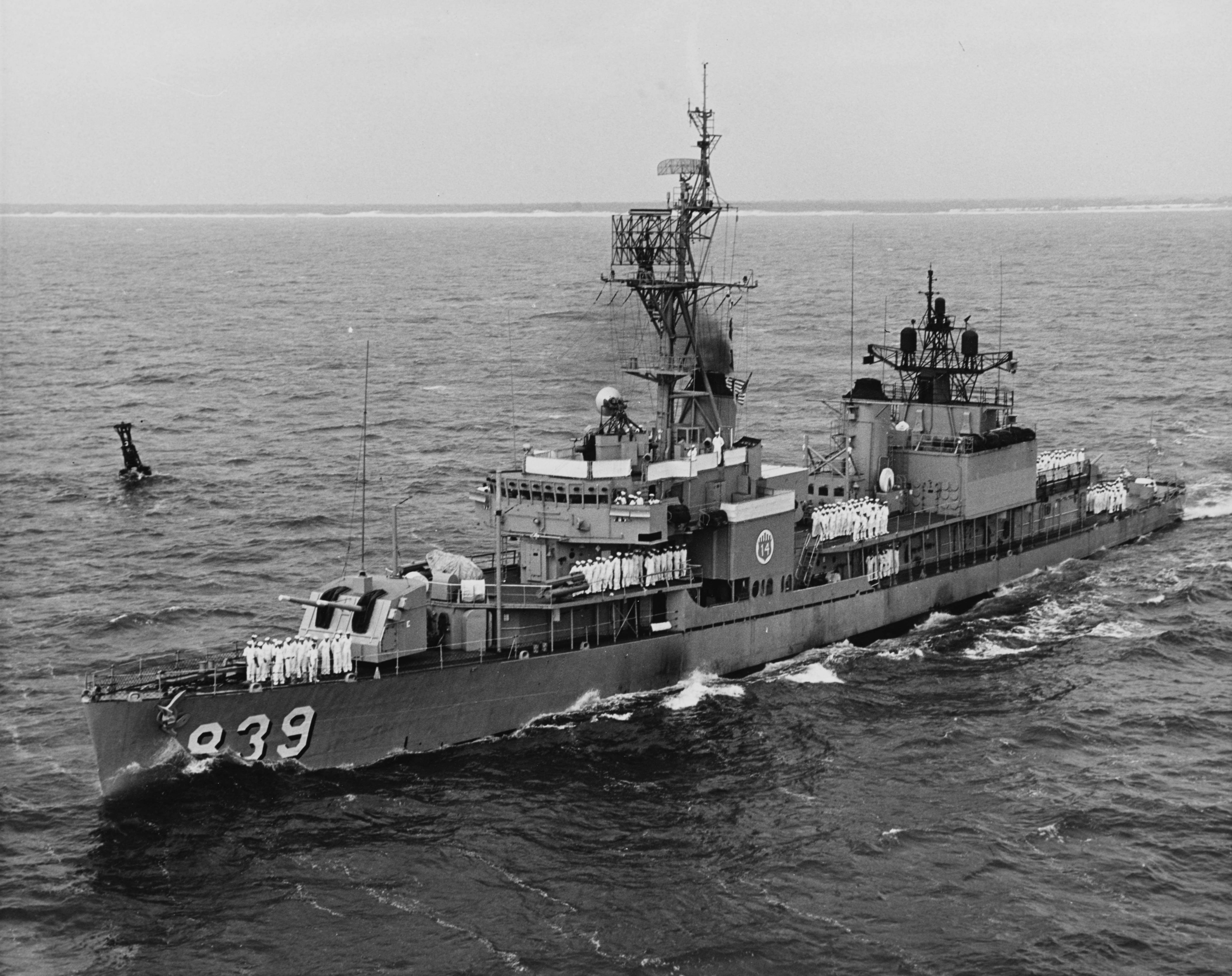 The U.S. Navy destroyer USS Power (DD-839) underway off the coast of Florida (USA) on 21 June 1966.